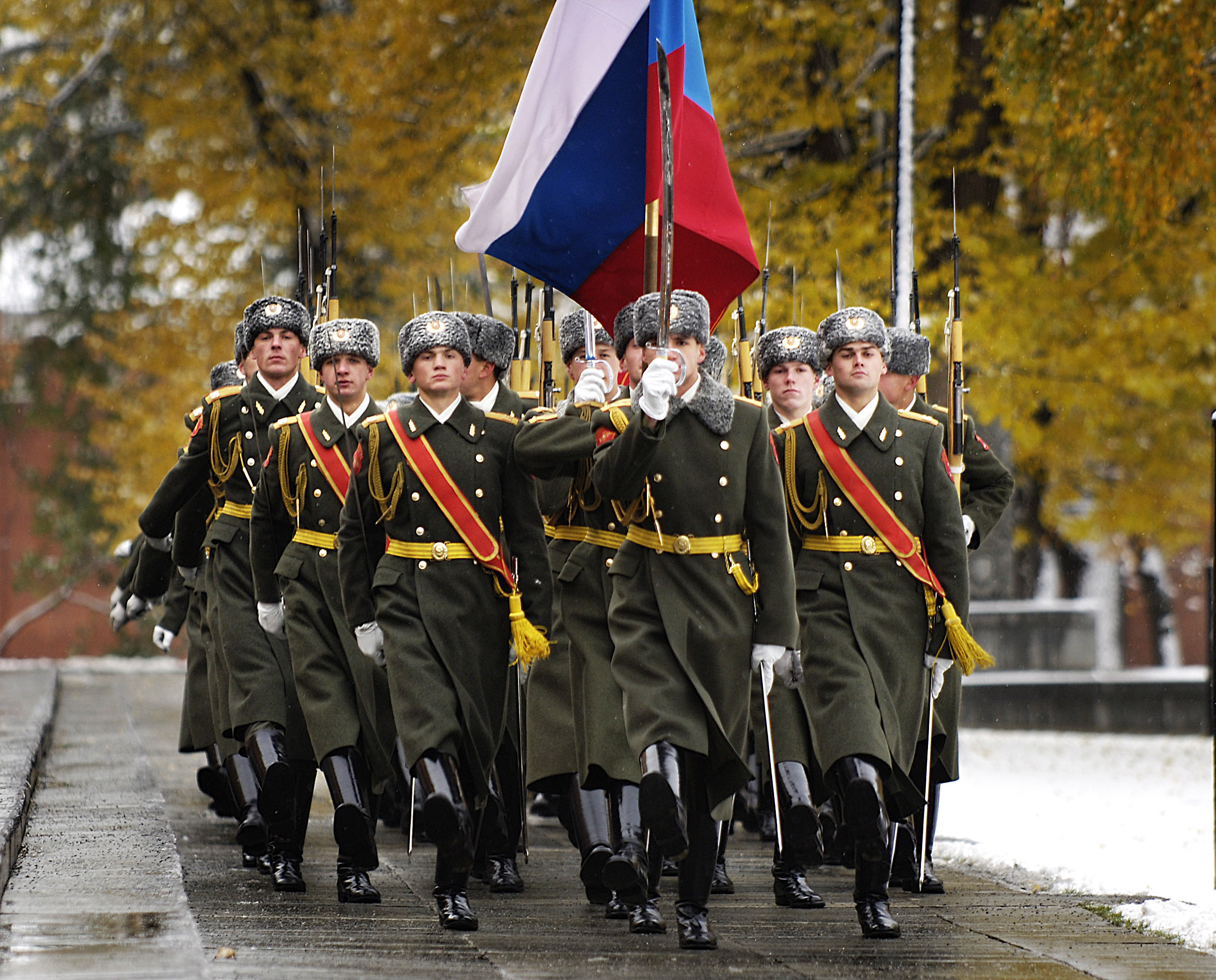 Russian honour guard from the 154th Preobrazhensky ICR perform a pass and review as part of a wreath-laying ceremony at the Tomb of the Unknown Soldier in Moscow, Russia